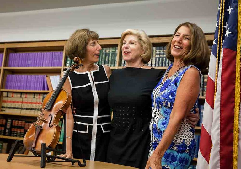 From left, Jill, Nina, and Amy Totenberg celebrate the return of their father’s Stradivarius violin, which was recently recovered after having been stolen in 1980.